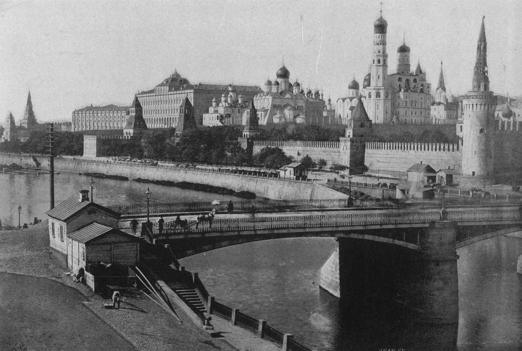 Old Moskvoretsky Bridge in Moscow